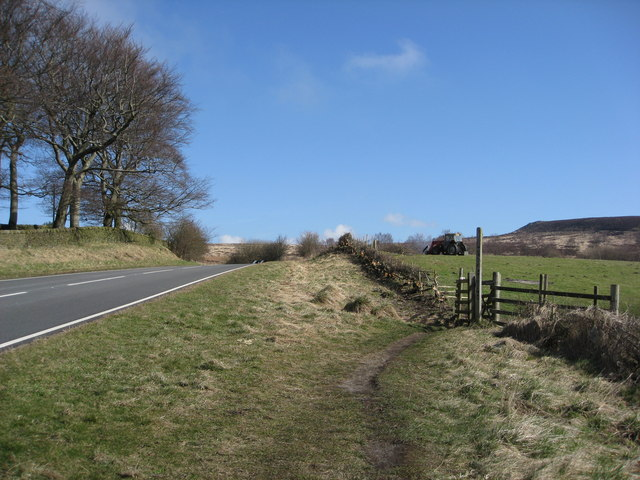 A625 View and bridleway to White Edge